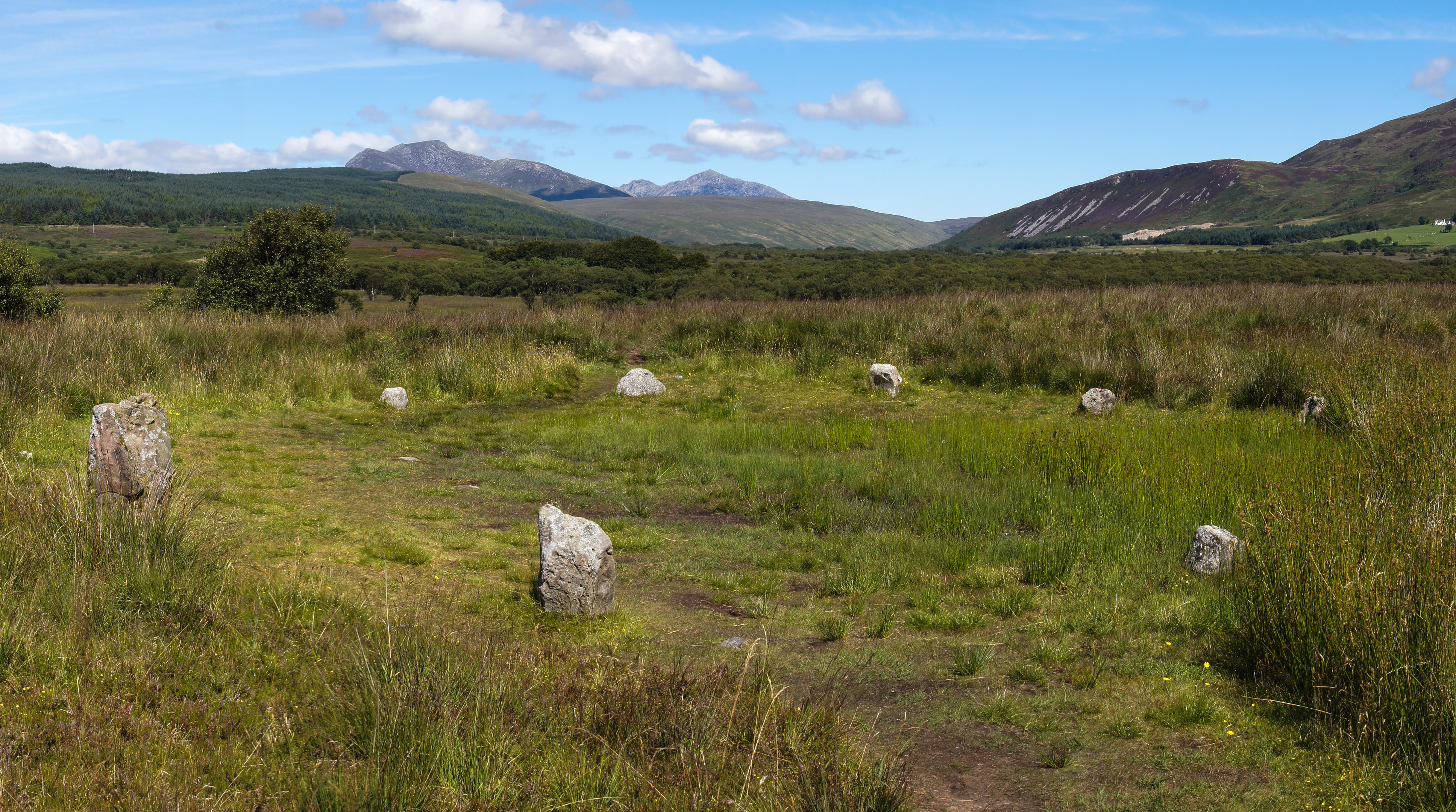 Circle 11 at Machrie Moor. In the far distance to are the mountains of the north of Arran, consisting of Beinn Tarsuinn and Goat Fell. Note: This is not the 11th circle but was discovered after circles 1..5, which were numbered from east to west and this is north-east of 1. So this could be thought of as circle 1a or circle 0 but the official naming is circle 11.